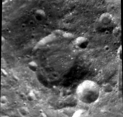 Parsons lunar crater - Clementine image.